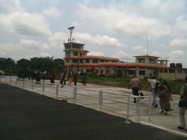 The airport and expanded over the years and now serves 5-8 flights every day. Bhadrapur is the gate way to East Nepal and India.